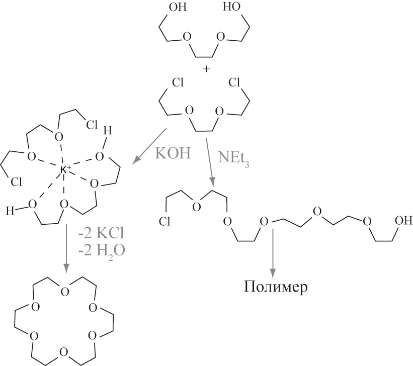 Основная и побочная реакции при образовании 18-краун-6 / The main and side reactions during the formation of the 18-crown-6